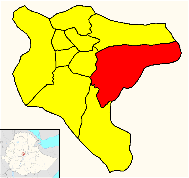 Map of the district (subcity) of Bole (shown in red) within the city of Addis Ababa (yellow).